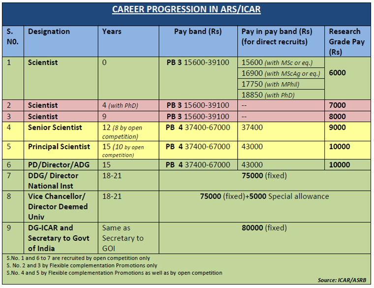 This presents career progression in India's Agricultural Research Service